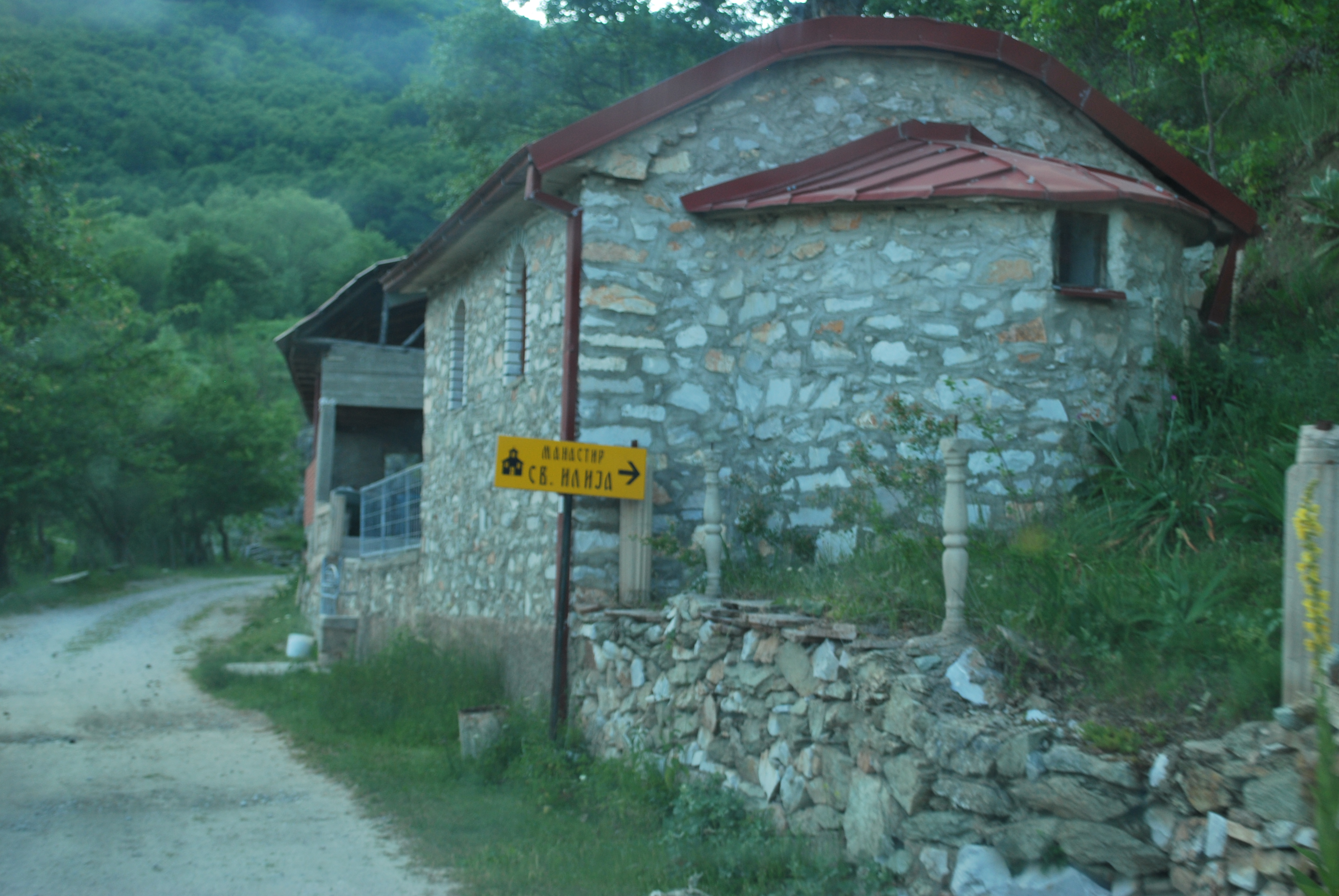 St. Elijah Church in Pusta Reka in Macedonia